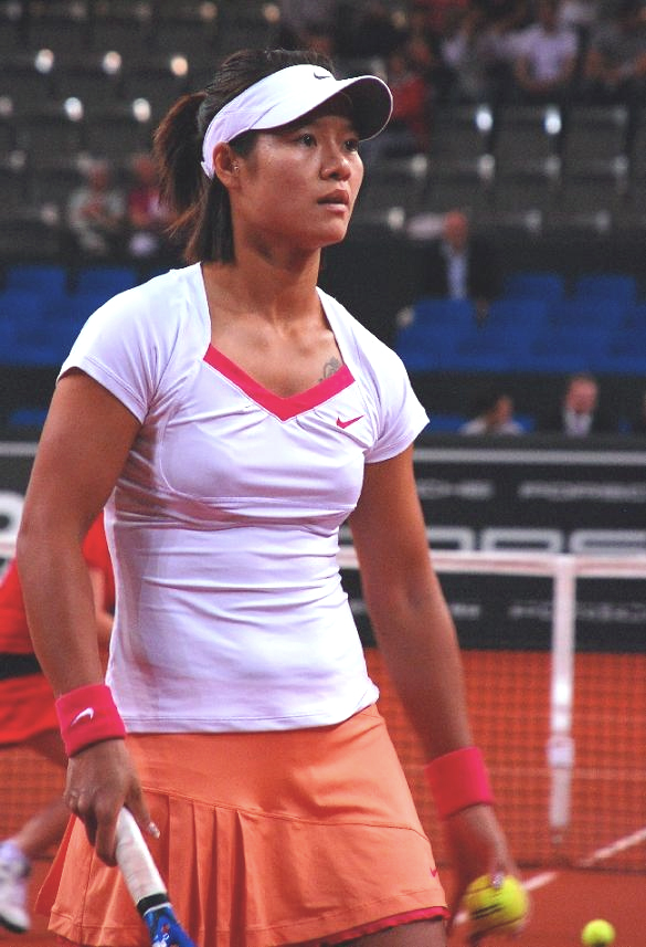 Li Na at the 2010 Stuttgart Porsche Cup